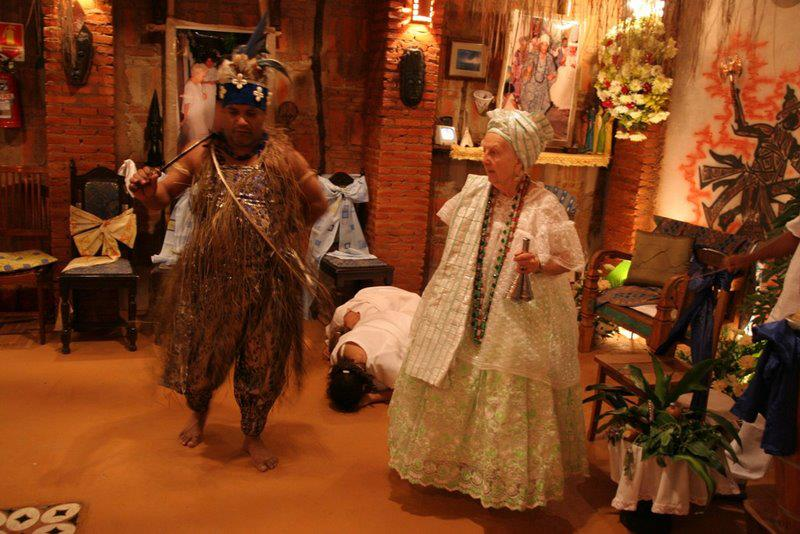 Omindarewa em Campinas